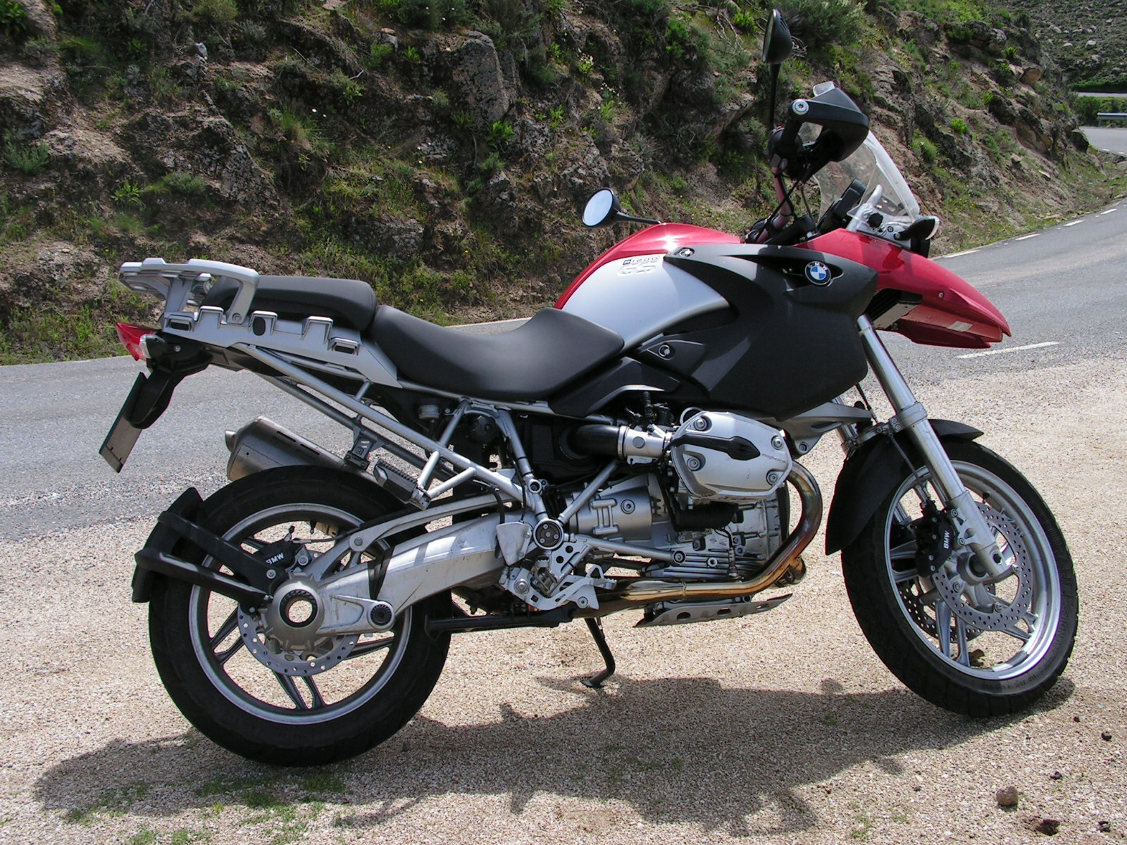 BMW R1200GS right side view. Note the hole through the final drive in the rear wheel.